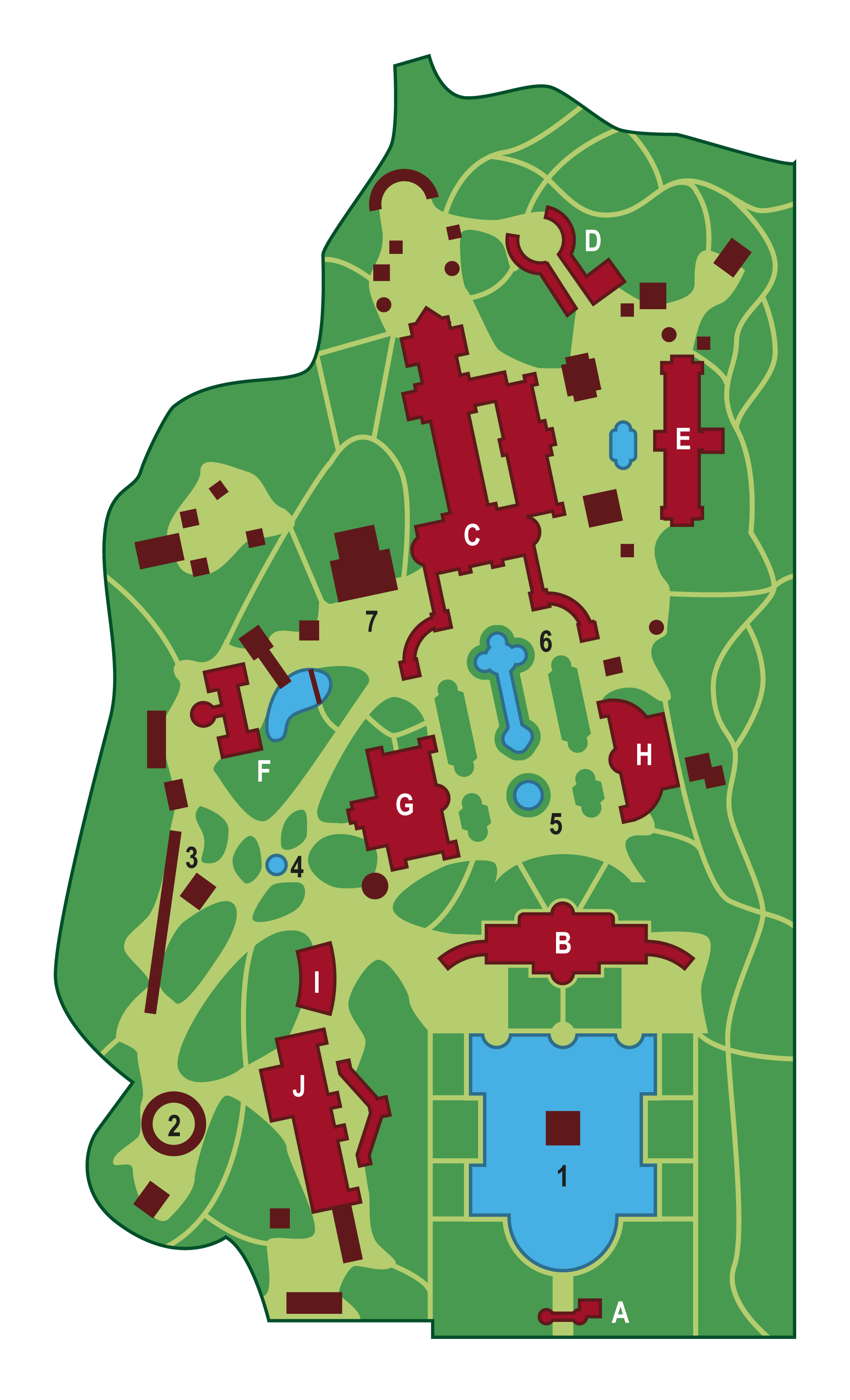 General map of the Nordwestdeutsche Gewerbe- und Industrieausstellung (the northwest german crafts and industry fair) 1890 in the Bremer Bürgerpark (the citizens’ park of Bremen).